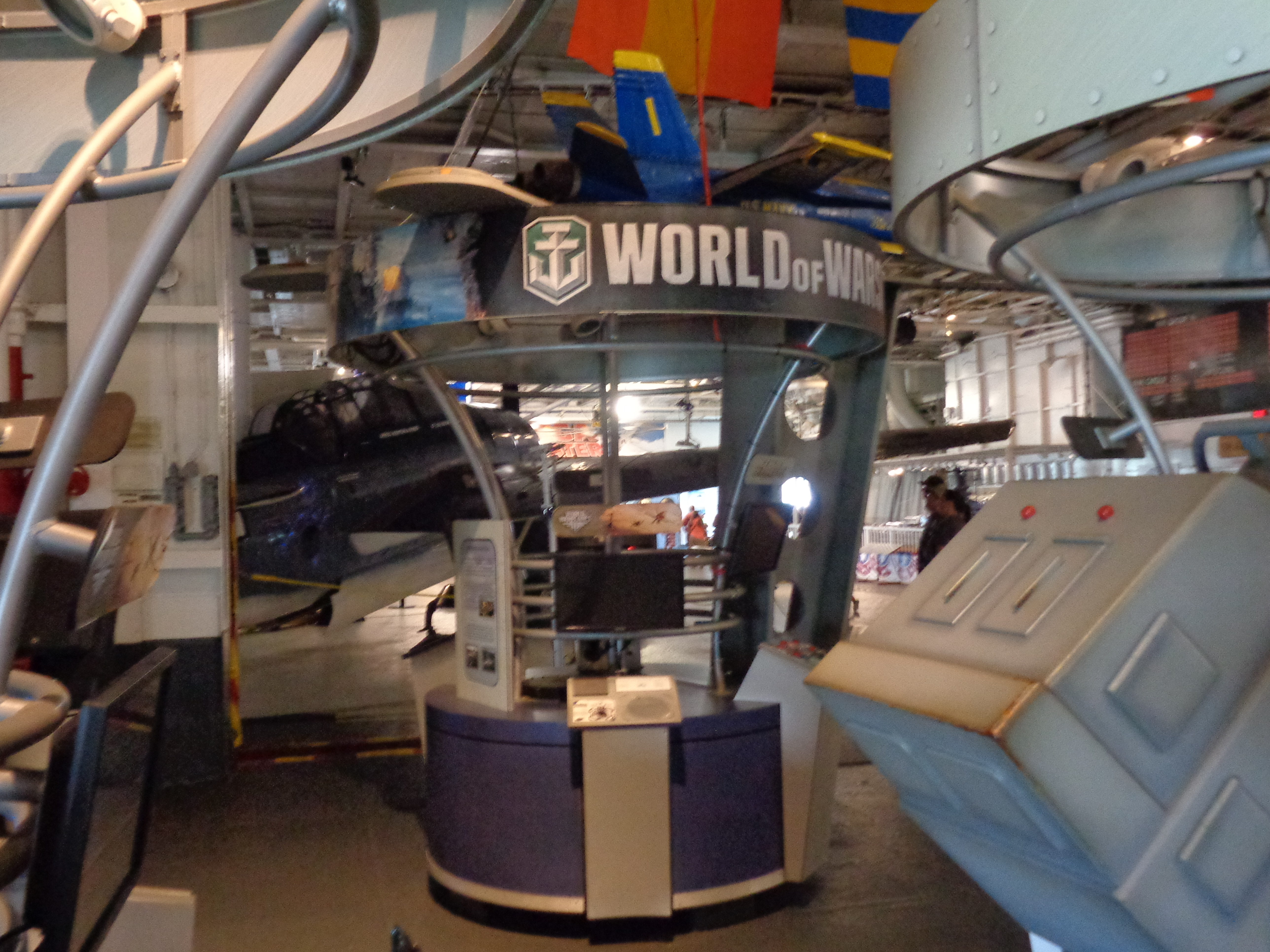 on the USS Lexington